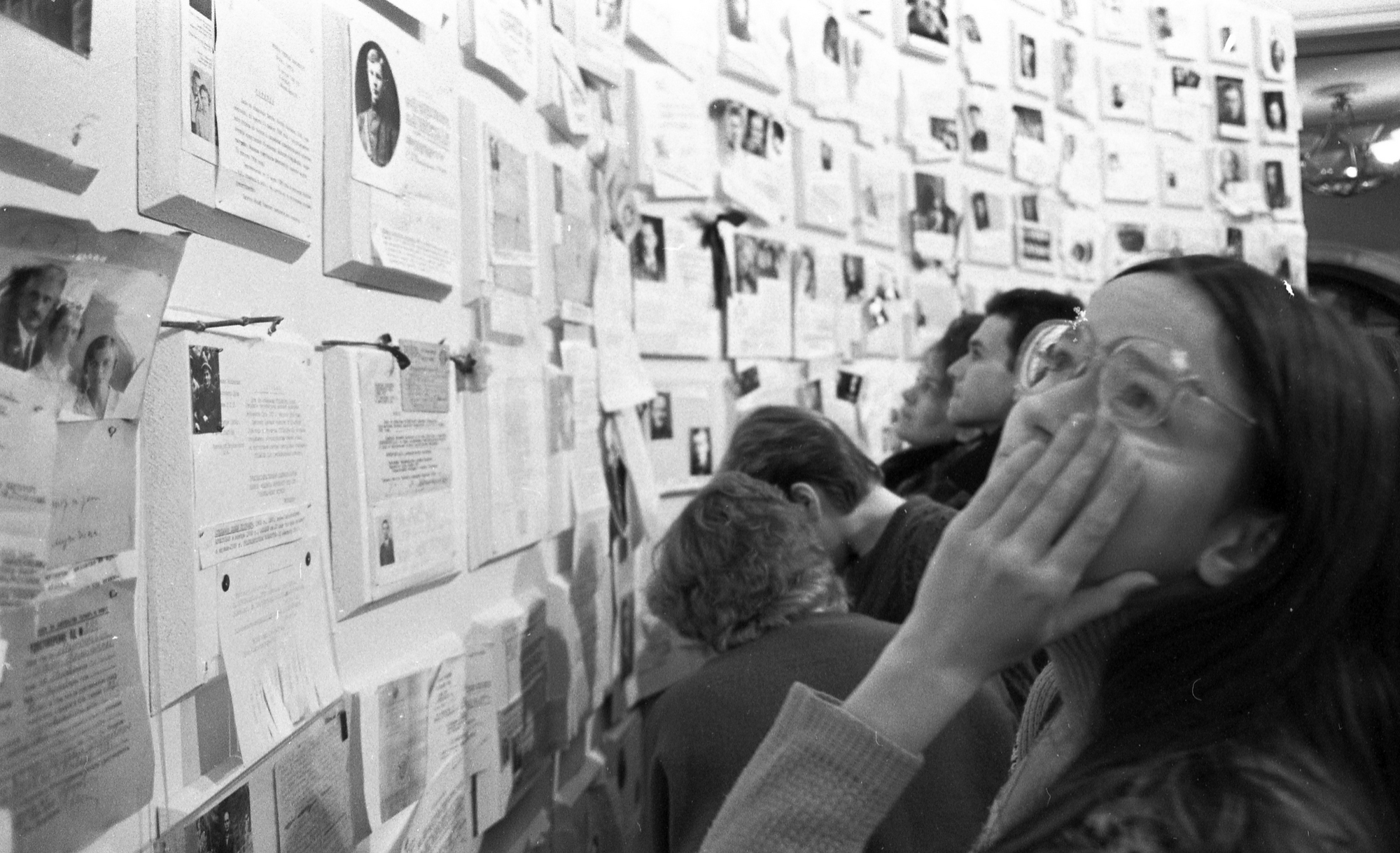 The first exhibition on the crimes of Stalinism, called "Week of Conscience," was held thanks to Perestroika in November 1988 at the club of the Moscow electric lamp factory.